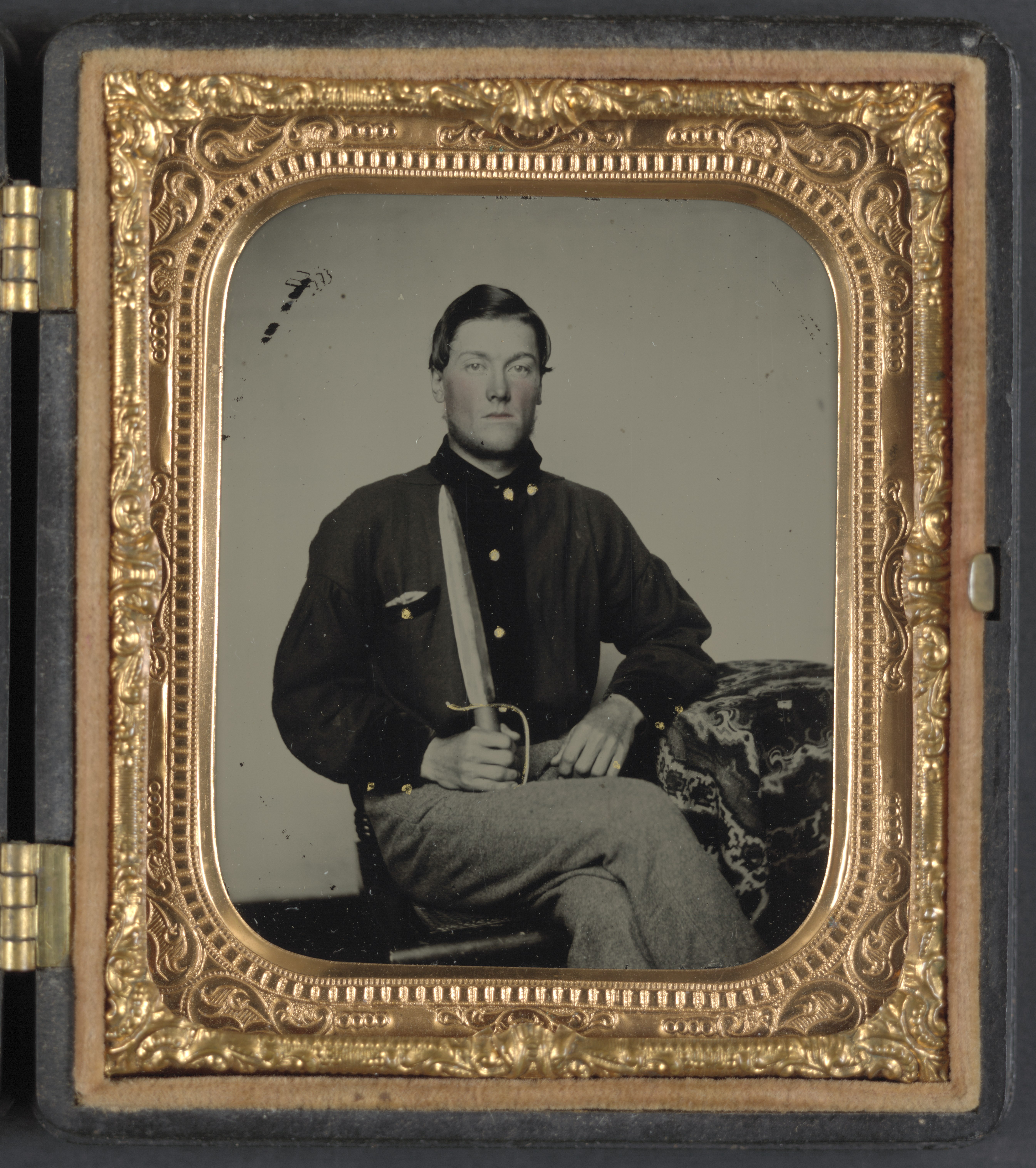 Title: Private David Bowman of Company I, 7th Virginia Cavalry Regiment, or Private Michael Bowman of Company B and Company H, 7th Virginia Cavalry Regiment, in uniform with knife Abstract/medium: 1 photograph : sixth-plate ambrotype, hand-colored ; 9.4 x 8.3 cm (case)